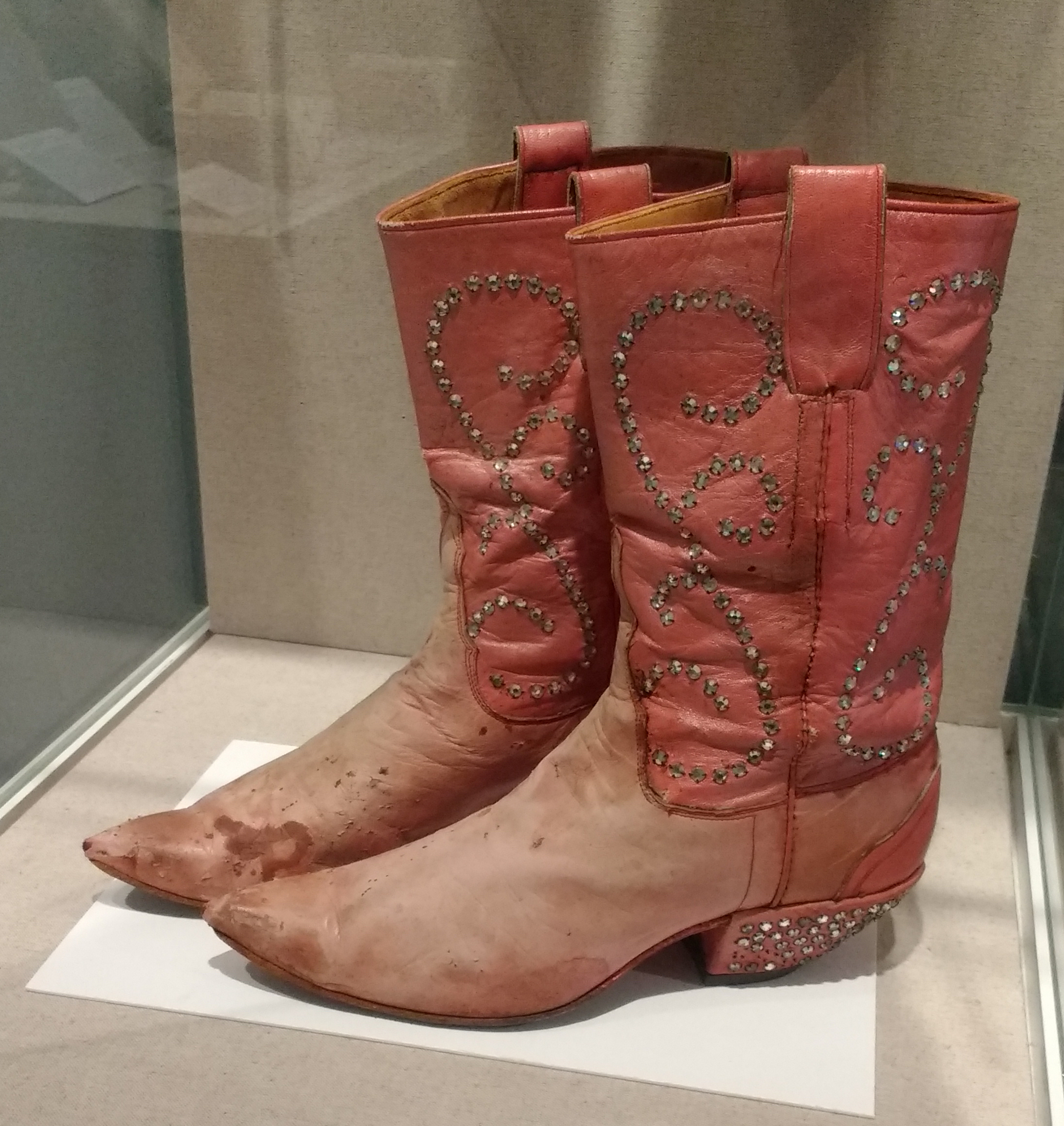 Pink rhinestone cowboy boots, worn by Dale Evans, from the collections of the University of Pennsylvania.